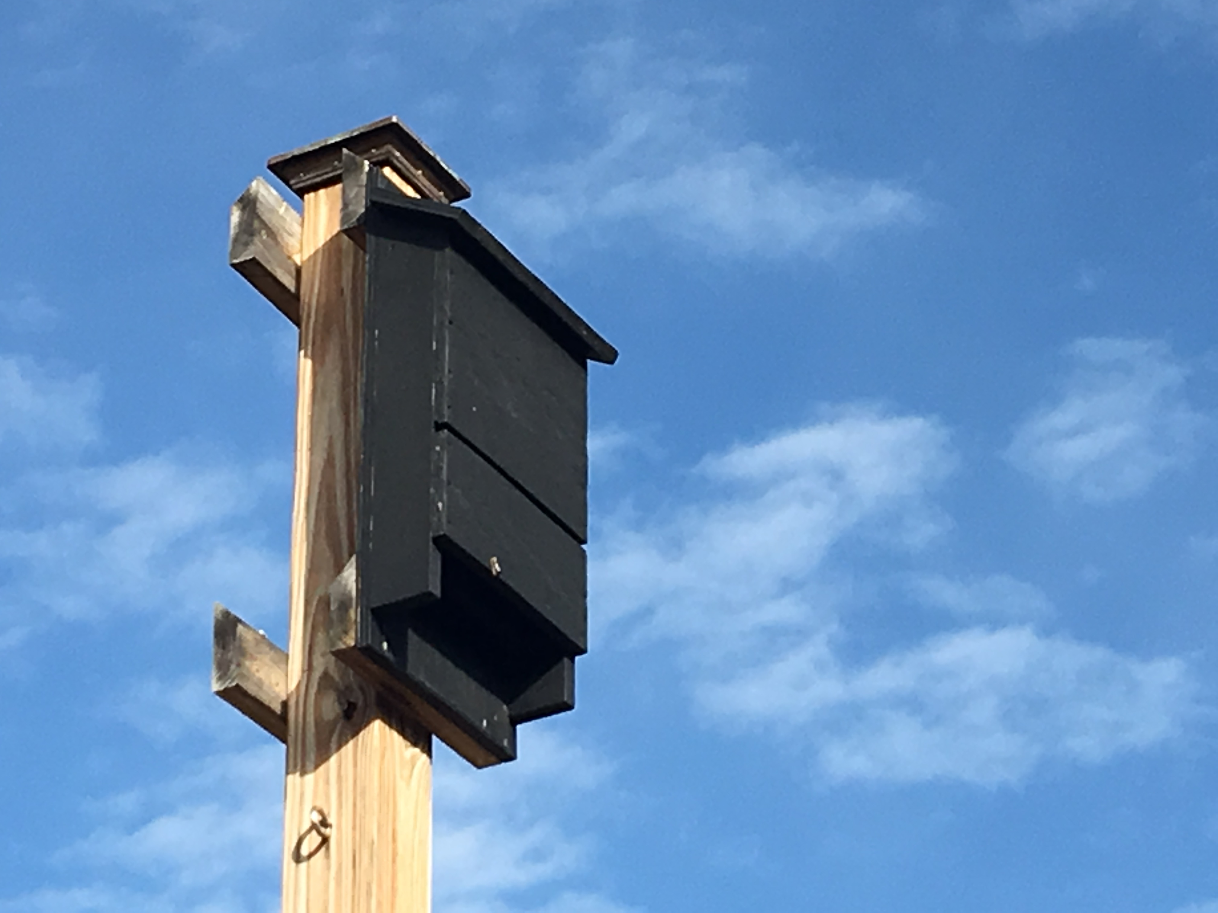 A bat house Hollis New Hampshire's Beaver Brook Association